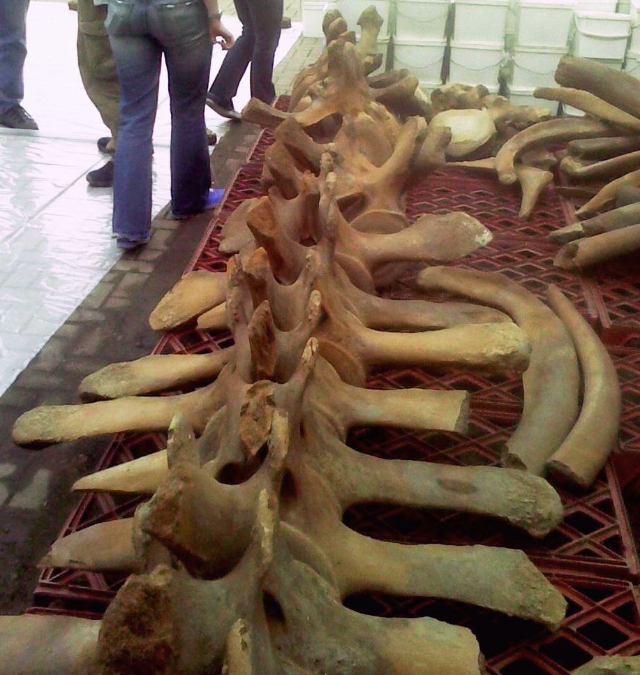 The North Atlantic right whale bones found at Bay Wharf in Greenwich (North Atlantic right whale). It exhibits signs of advanced ankylosis that were either due to old age or injuries and cut marks from the time of its death. As yet undated, the whale is believed to have been killed by peasants after it beached itself (unproven hypothesys).